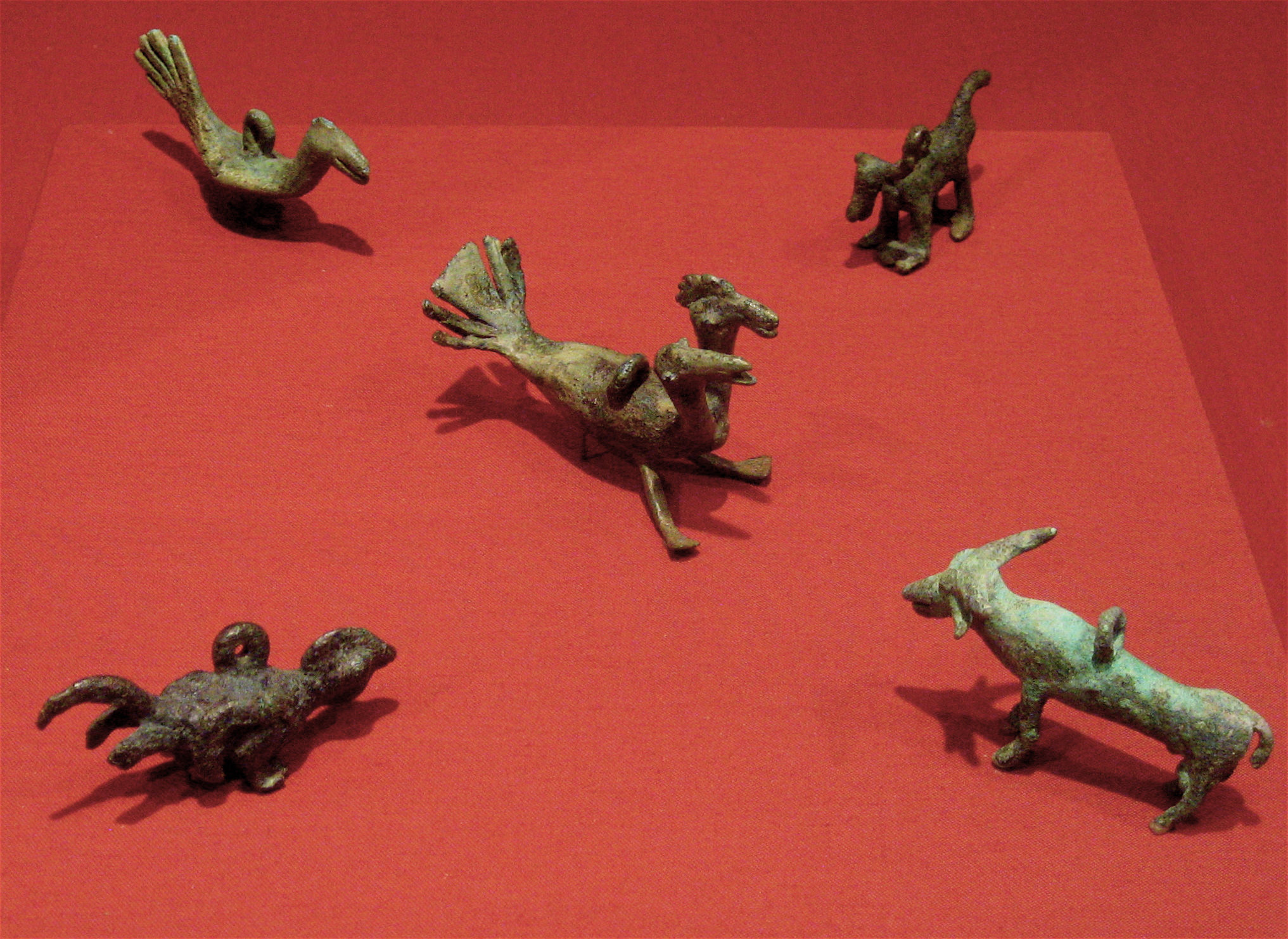 Indonesia, Southeast Asia Bird Pendant, circa 100 B.C-A.D. 300 Decorative object; Metalwork, Copper alloy, 1 1/2 x 2 3/4 x 11/16 in. (3.8 x 7 x 1.8 cm) Two-Headed Bird Pendant, circa 100 B.C-A.D. 300 Decorative object; Jewelry/personal adornment; Metalwork, Copper alloy, 1 13/16 x 2 5/8 x 1 1/4 in. (4.6 x 6.7 x 3.2 cm) Chameleon Pendant, circa 100 B.C.-A.D. 300 Decorative object; Metalwork, Copper alloy, 15/16 x 2 5/16 x 3/4 in. (2.4 x 5.9 x 1.9 cm) Dog (?) Pendant, circa 100 B.C.-A.D. 300 Decorative object; Metalwork, Copper alloy, 1 1/8 x 2 x 5/8 in. (2.9 x 5.1 x 1.6 cm) Bull Pendant, 100 B.C. - A.D. 300 Decorative object; Metalwork, Copper alloy, 1 3/8 x 2 3/8 x 7/8 in. (3.49 x 6.03 x 2.22 cm) Gift of Daniel Ostroff (AC1998.259.1-5) Wikipedia Loves Art at the Los Angeles County Museum of Art This photo of item # AC1998.259.1 at the Los Angeles County Museum of Art was contributed under the team name "artifacts" as part of the Wikipedia Loves Art project in February 2009. Los Angeles County Museum of Art The original photograph on Flickr was taken by Beesnest McClain—please add a comment to the original Flickr page whenever a use has been made on Wikipedia or another project. Project galleries on Flickr: this institution, this team